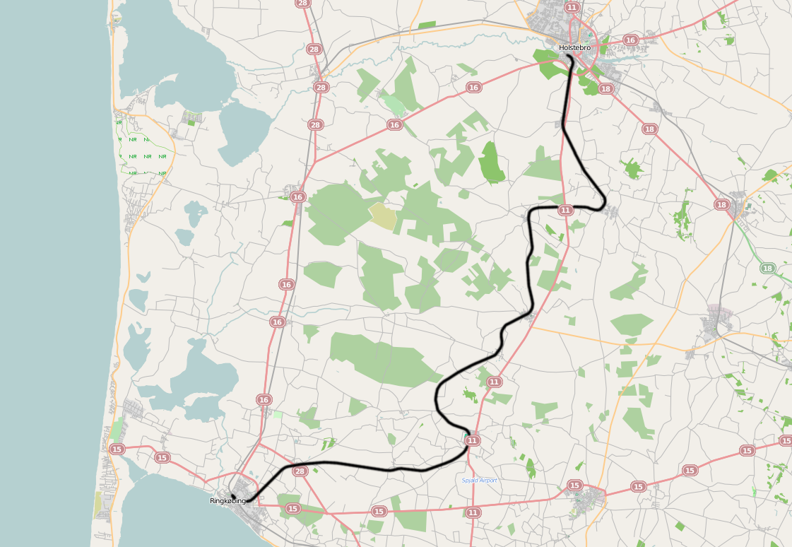 Railway line Ringkøbing - Holstebro